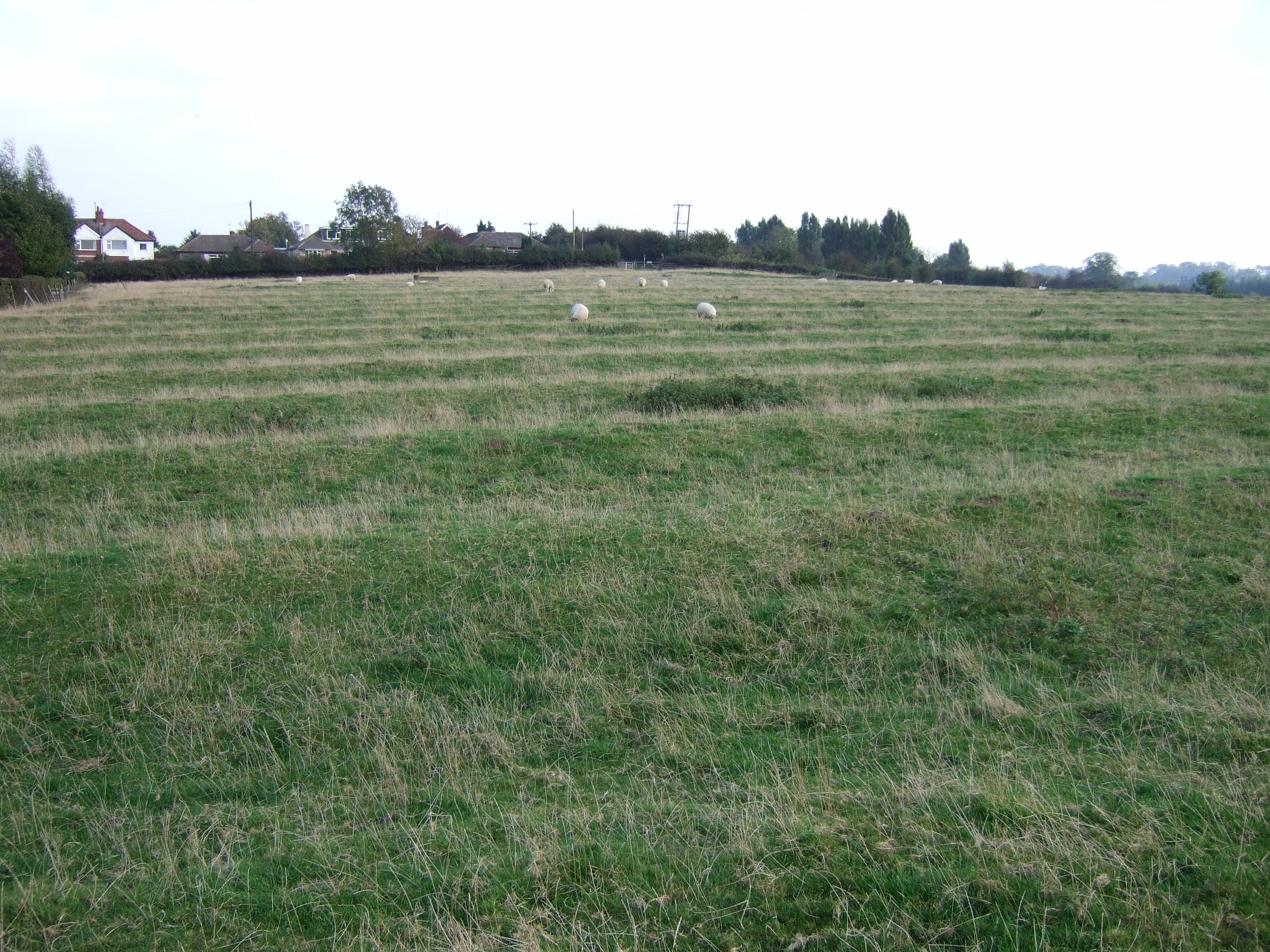 Ridge and furrow at East Leake Nottinghamshire. Image taken 14 October 2007 by John Beniston.